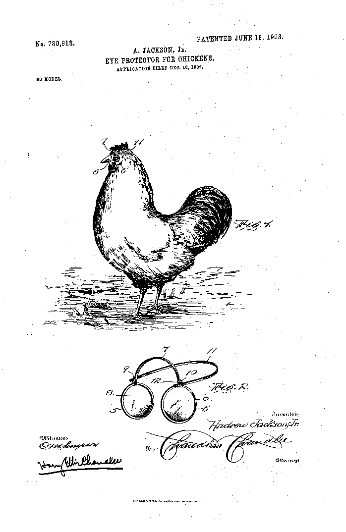 Detail from Andrew Jackson, Jr.'s December 10, 1902 U.S. Patent application for an "eye-protector for chickens" (patent granted June 16, 1903).